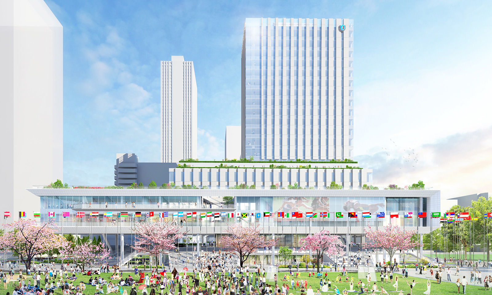 Artist's rendition of Tokyo International University Global Campus in Ikebukuro